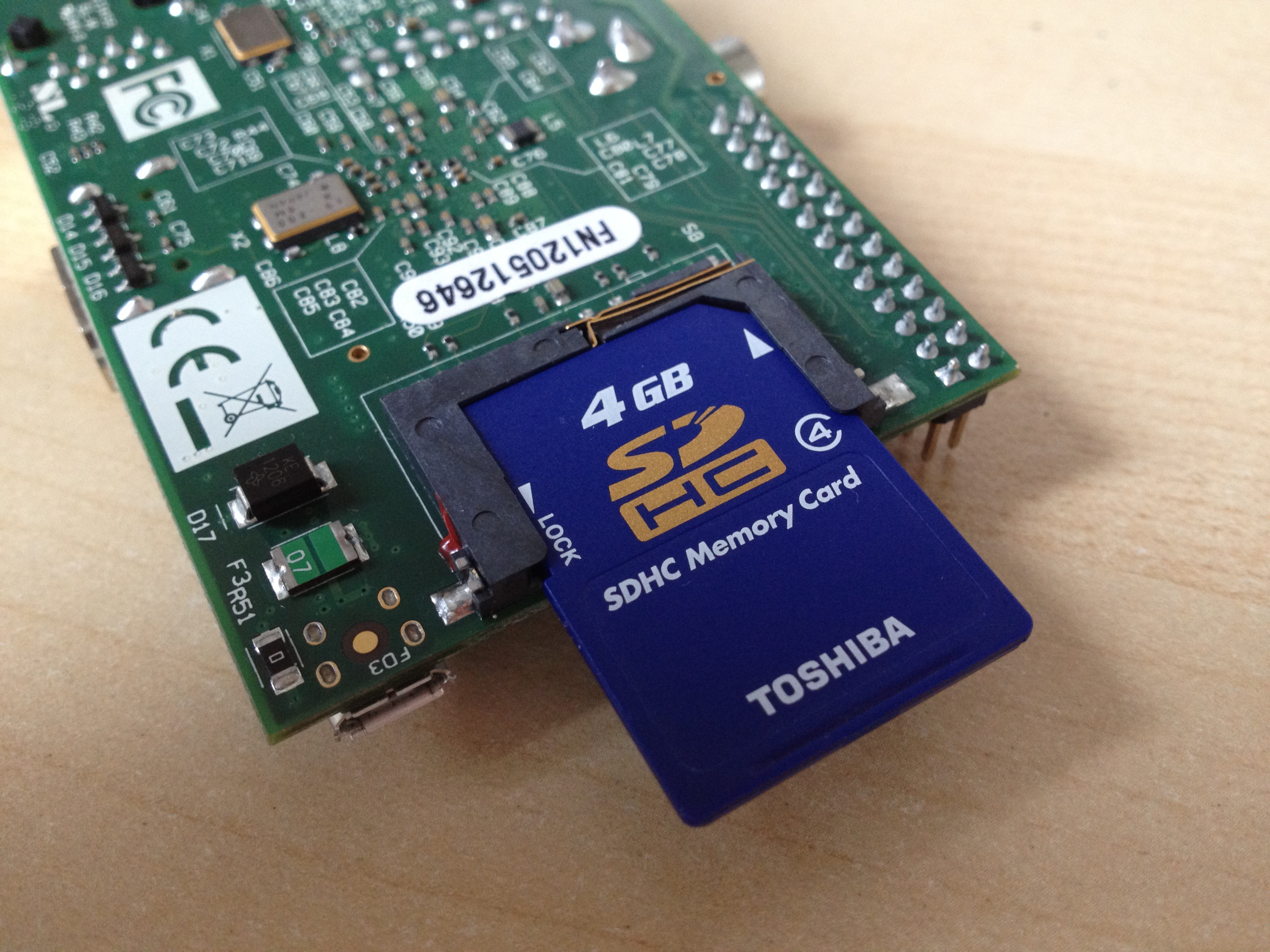 pIO - microSD Adapter for Raspberry Pi